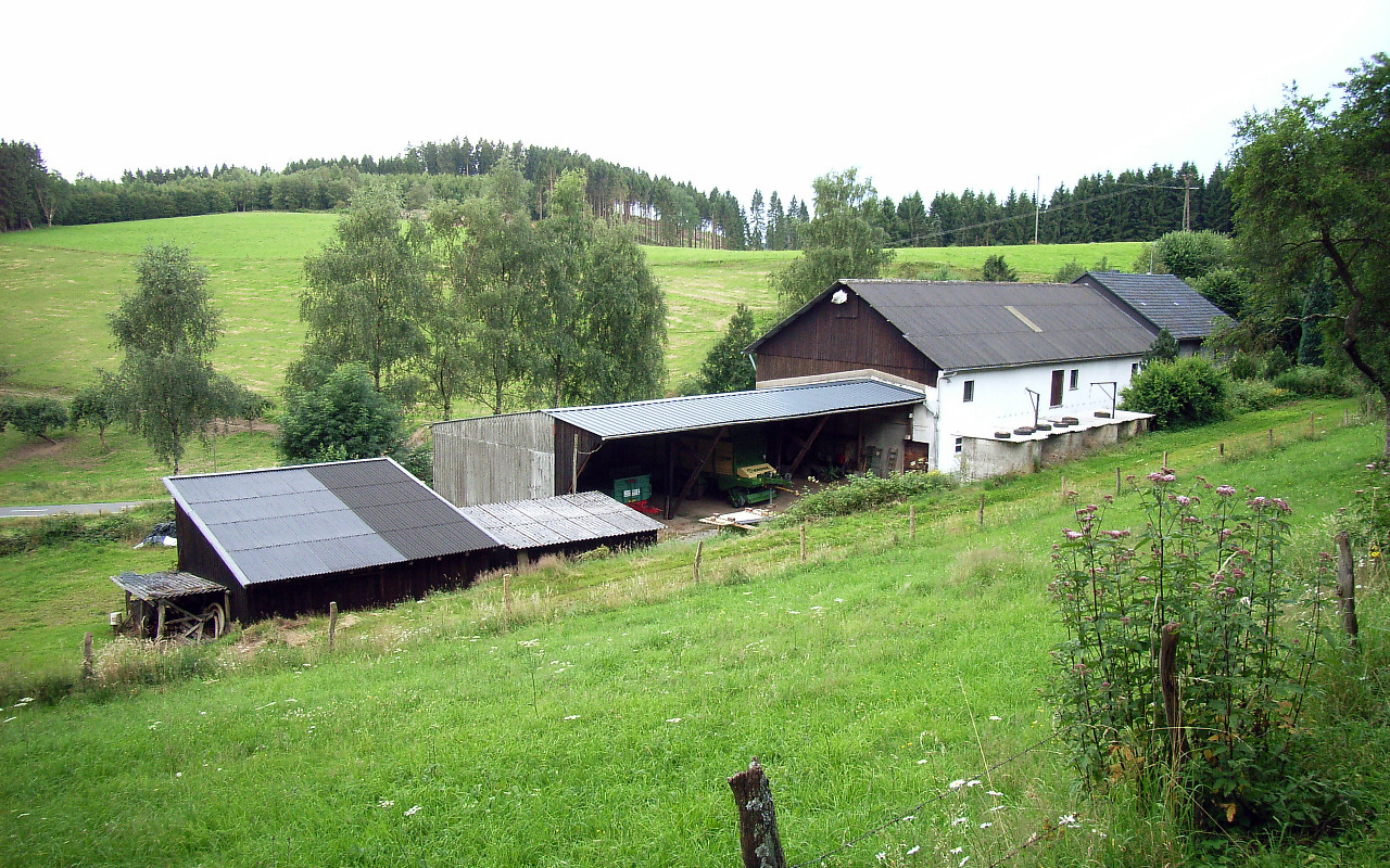 view of Schusterburg, district of Gummersbach, North Rhine-Westphalia, Germany